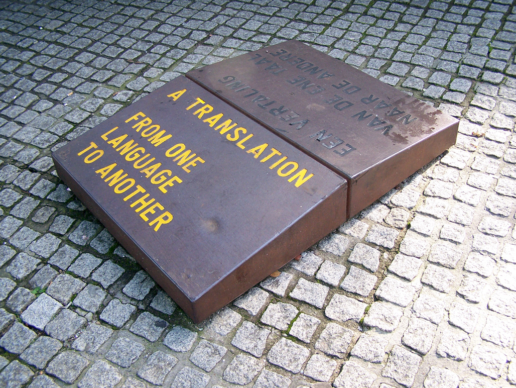 The artwork "Een vertaling van de ene taal naar de andere" / "A Translation from one language to another" by Lawrence Weiner. Placed in 1996 at the Spui (square) in Amsterdam. It consists of three pairs of two stones placed against each other. On each stone there is an inscription "A Translation from one language to another", in another language - Dutch, English, Surinam and Arabic. Here the Dutch one